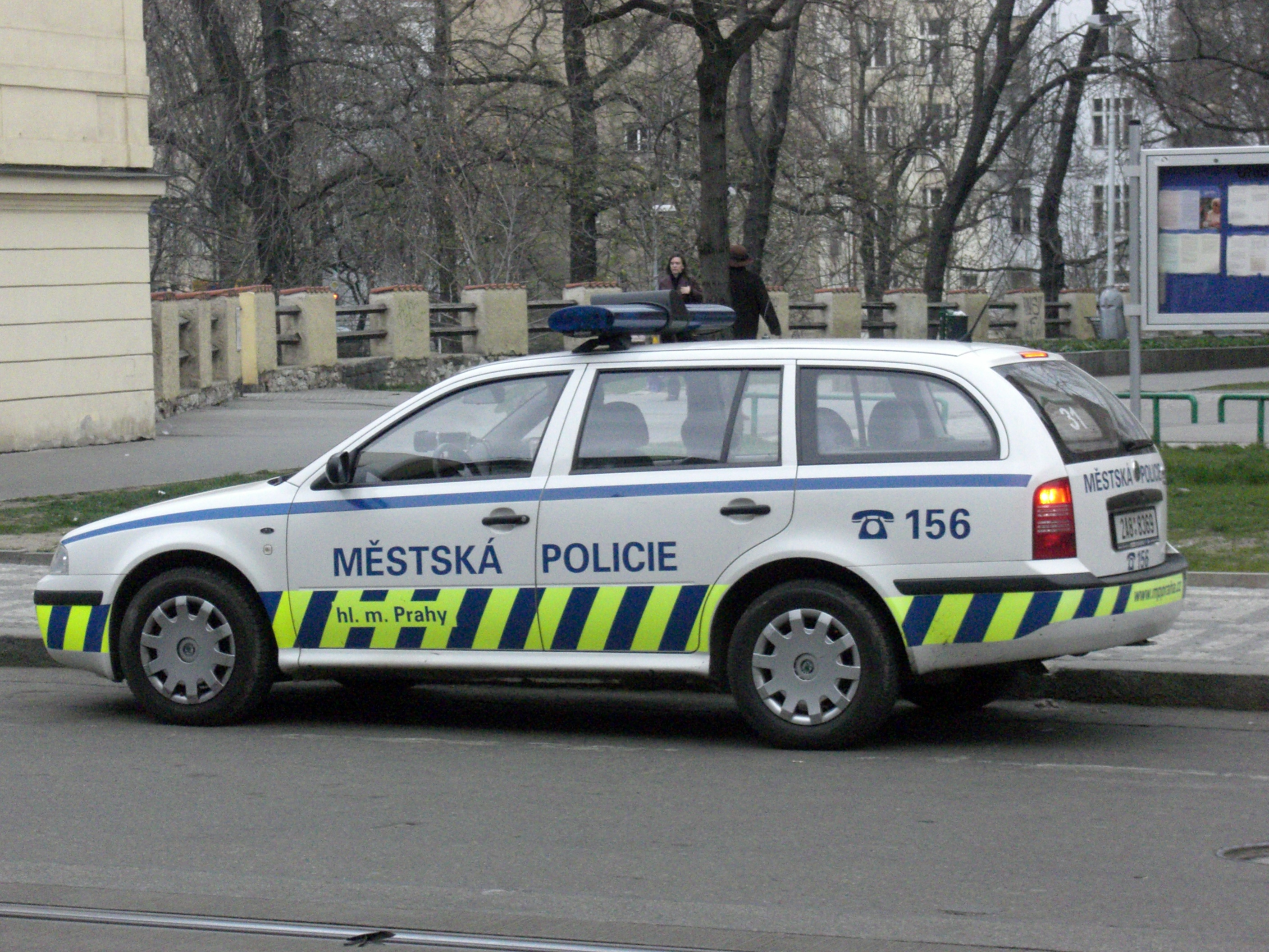 Car of City Police in Prague